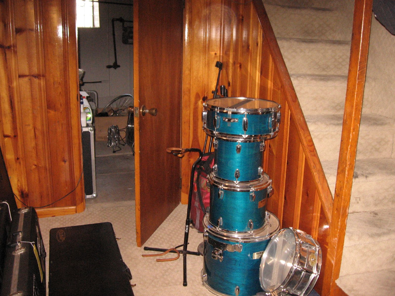 Picture showing knotty pine paneling finished with shellac. I'm uploading it for the shellac article.